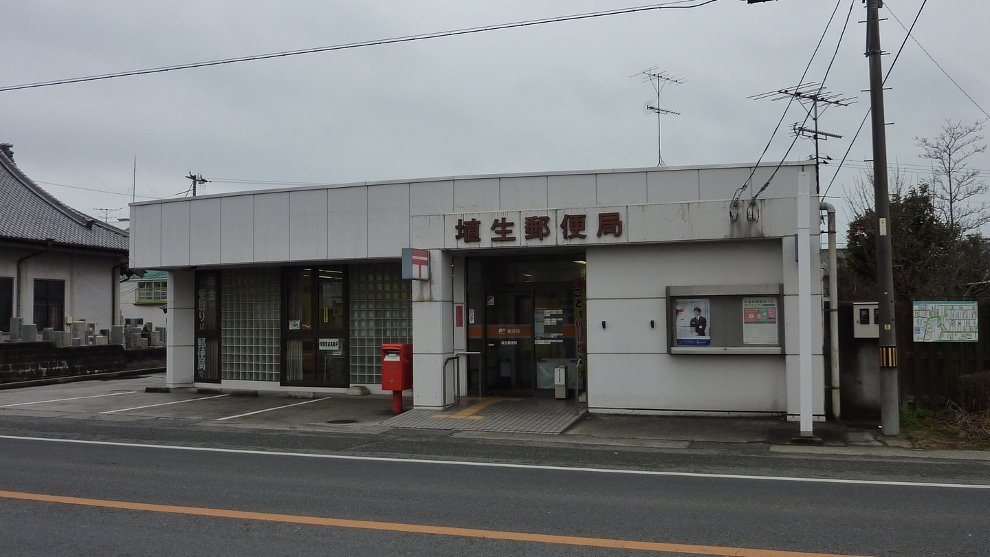 Habu Post Office (Sanyo-Onoda City, Yamaguchi, Japan)